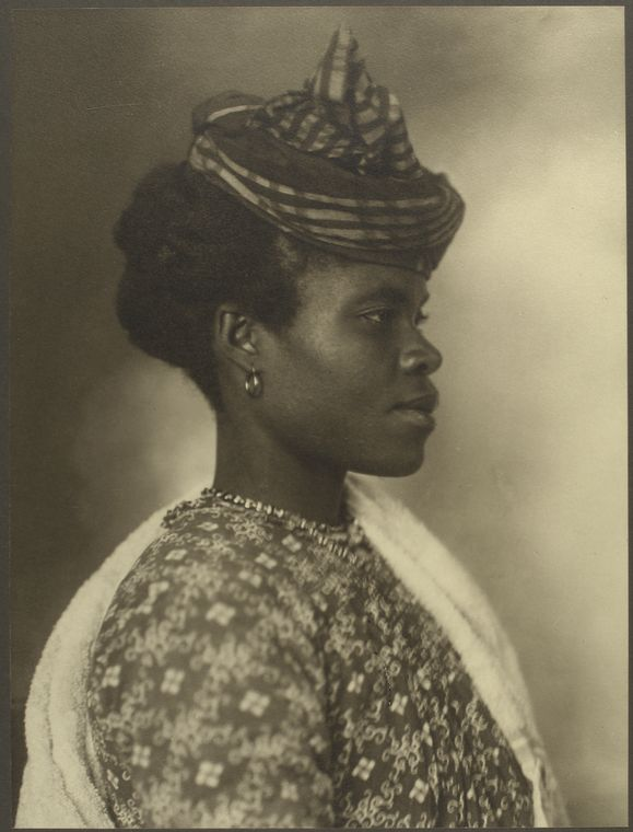 Digital ID: 418039. Sherman, Augustus F. (Augustus Francis) -- Photographer. [1911] Source: William Williams papers / Photographs of immigrants ( Repository: The New York Public Library. Manuscripts and Archives Division. See more information about and others at Persistent URL: Rights Info: No known copyright restrictions; may be subject to third party rights (for more information